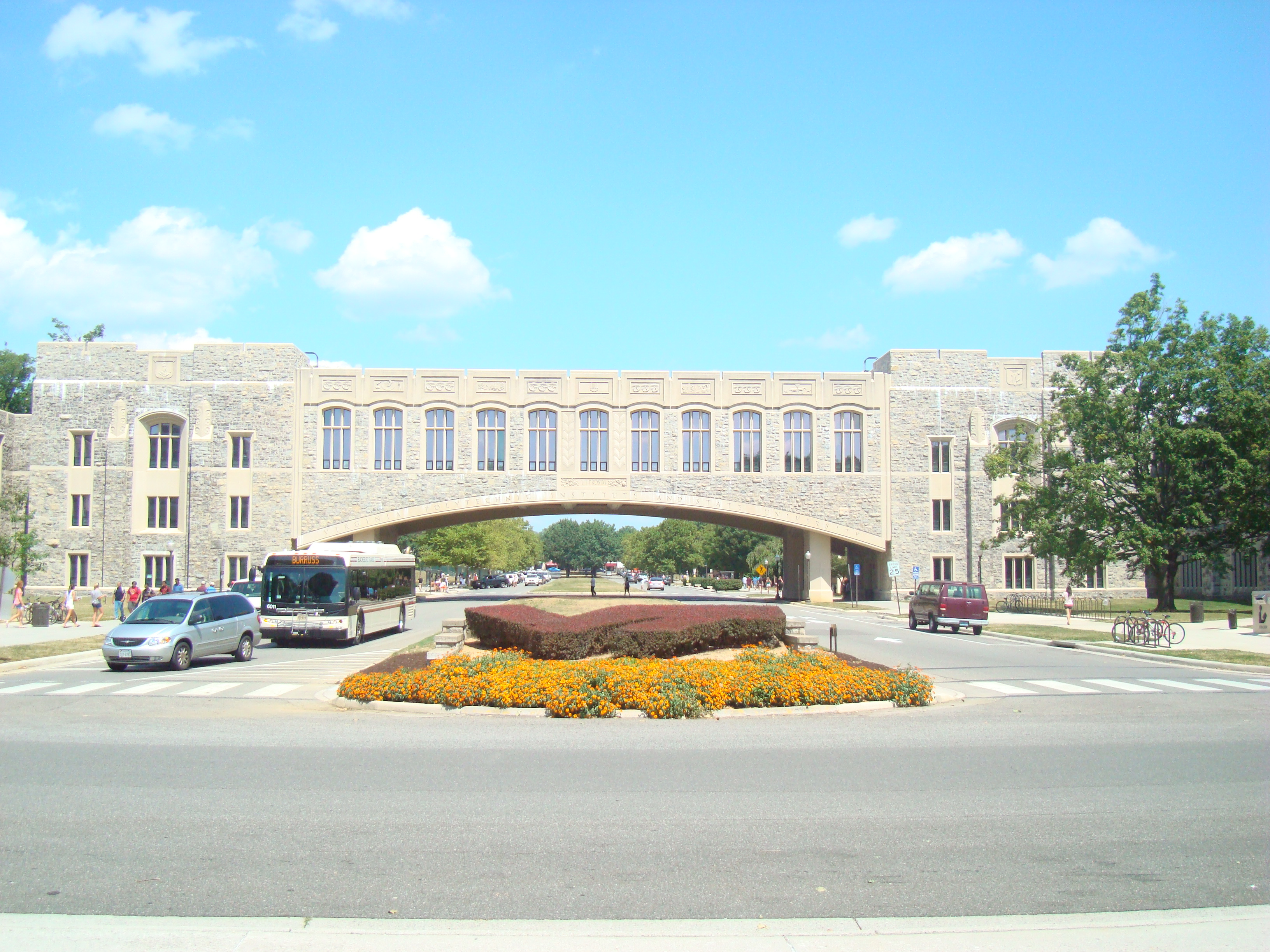 Torgersen Hall bridge at Virginia Tech